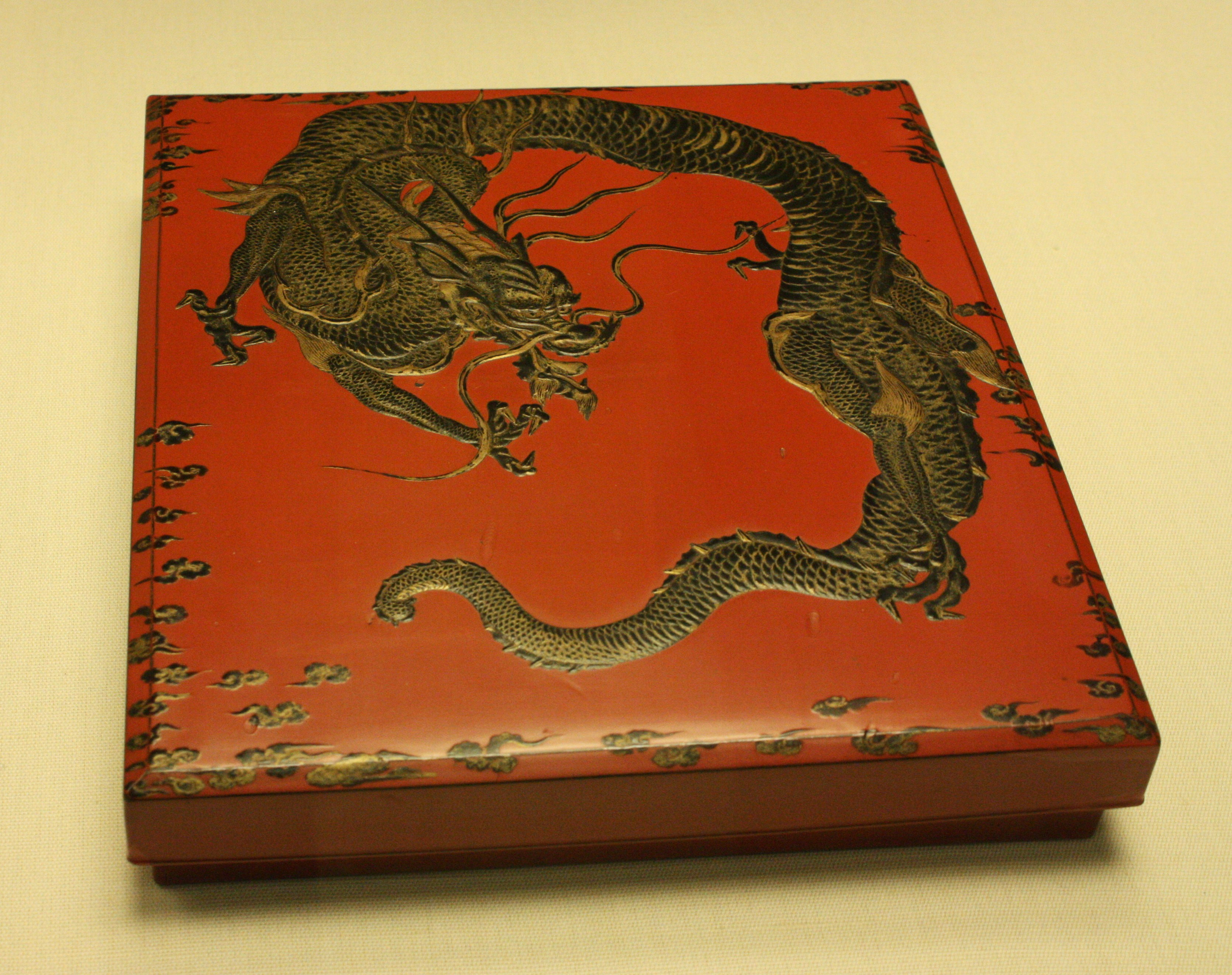 Box for Writing Utensils 1626 Wood covered in red lacquer with gold and black \'takamaki-e\' lacquer Dragon and clouds. Signed inside the lid \'made by Shimizu Ichidayu Masatomo\' and dated \'Kan\'ei third year\' (= 1626) Spiers Bequest Collection ID: W.2:1-1917 This photo was taken as part of Britain Loves Wikipedia in February 2010 by Valerie McGlinchey.